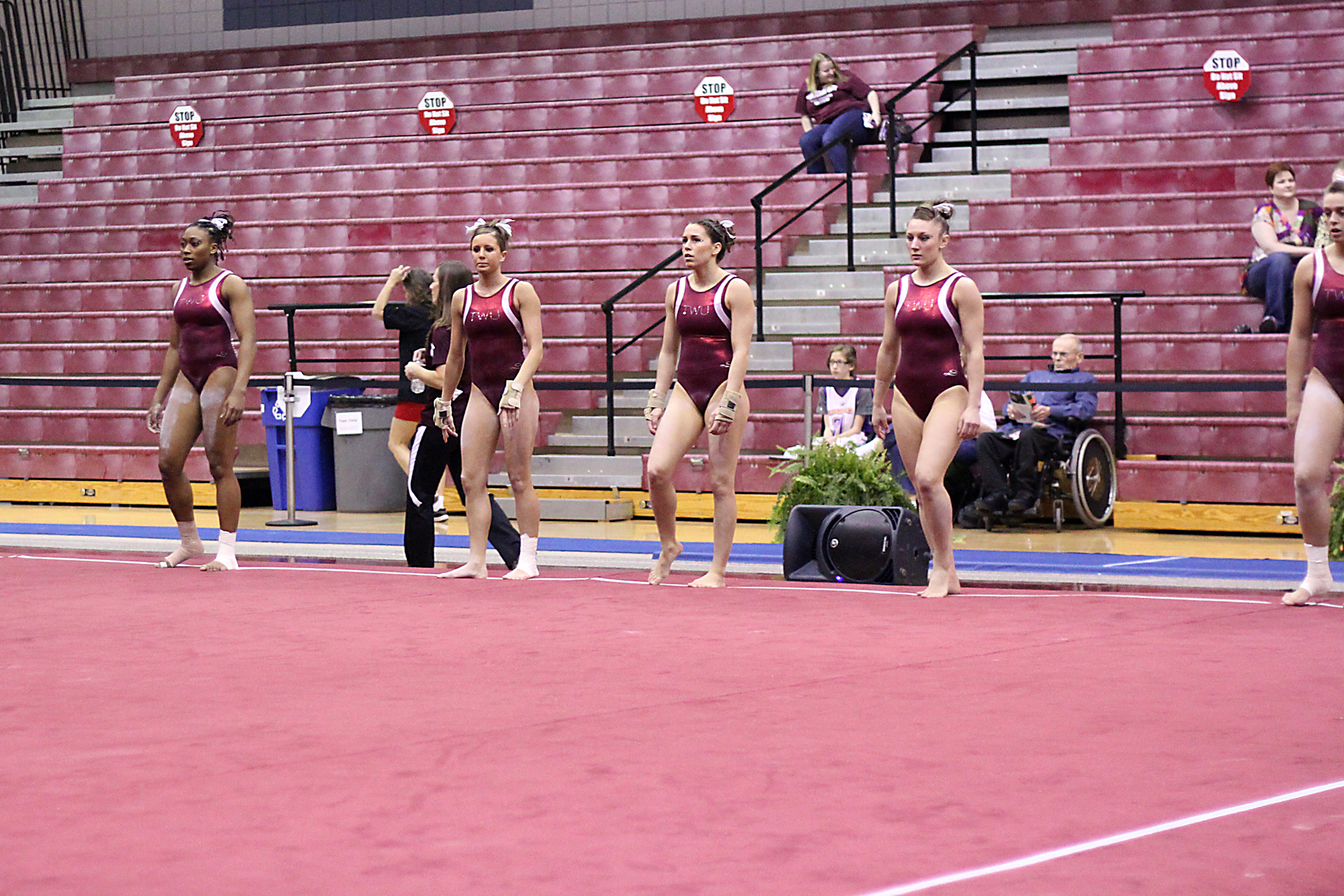 February 26, Denton, TX The TWU Pioneers dominated from start to finish in head coach Frank Kudlac's final meet at Kitty Magee Arena on Saturday night.